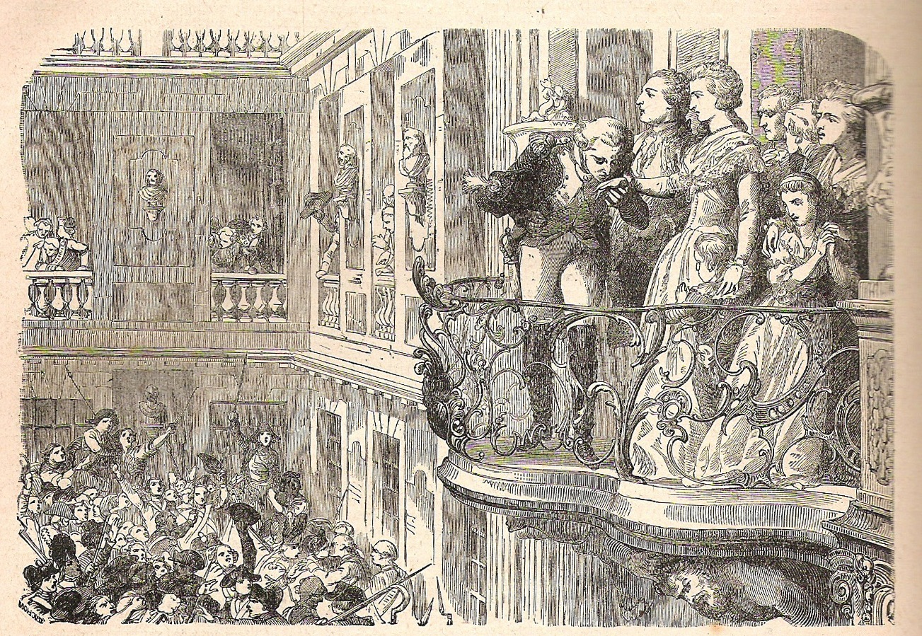 La Fayette kisses Marie Antoinette's hand.